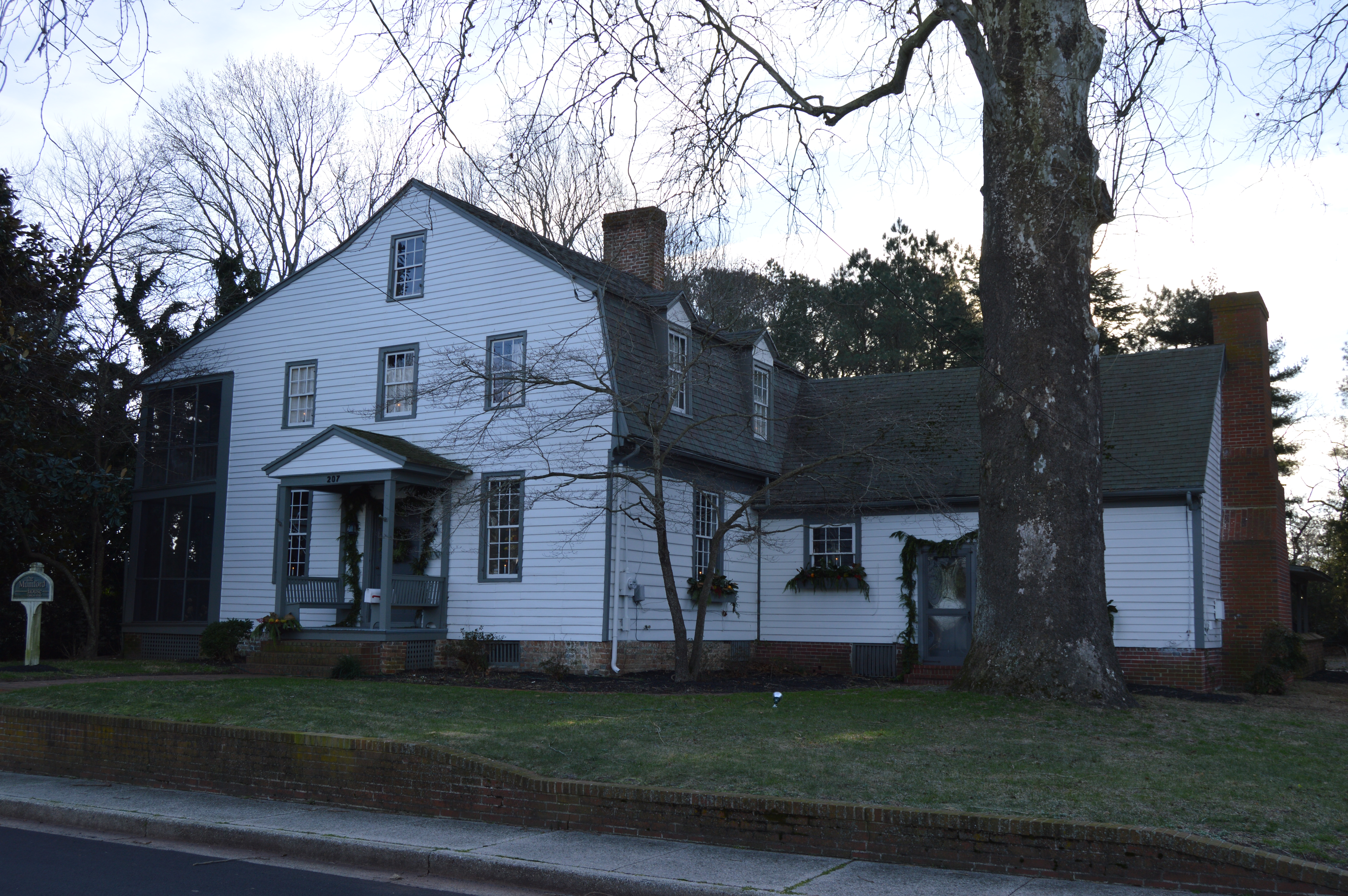 Front of the James Martin House, located at 207 Ironshire Street in Snow Hill, Maryland, United States. Built in 1790, it is listed on the National Register of Historic Places.